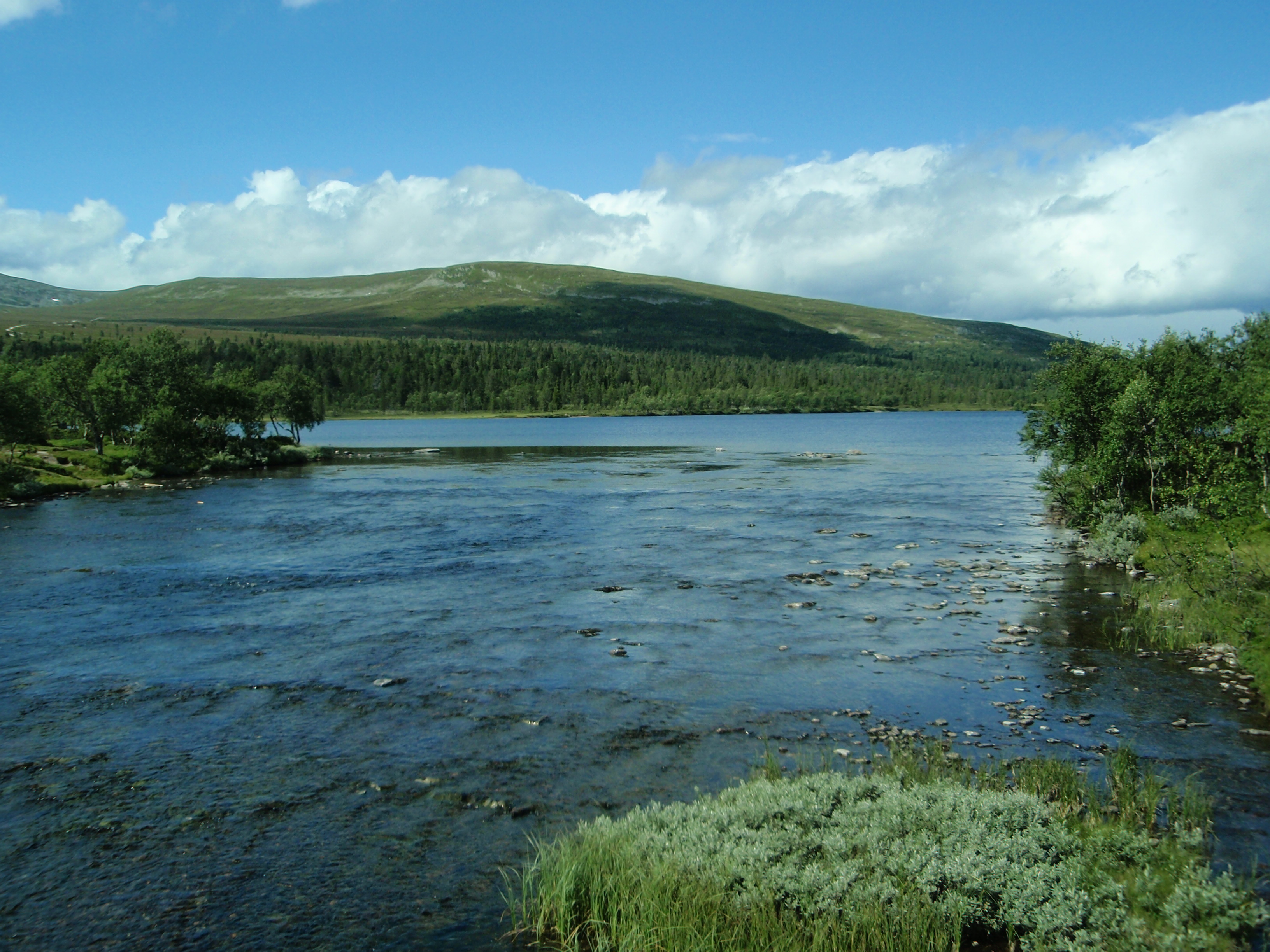 Grövelsjön, July 2013